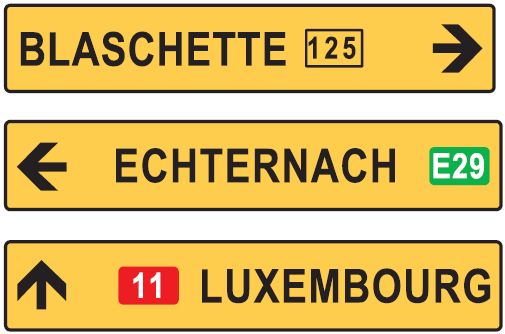 Diagram of road signs of Luxembourg